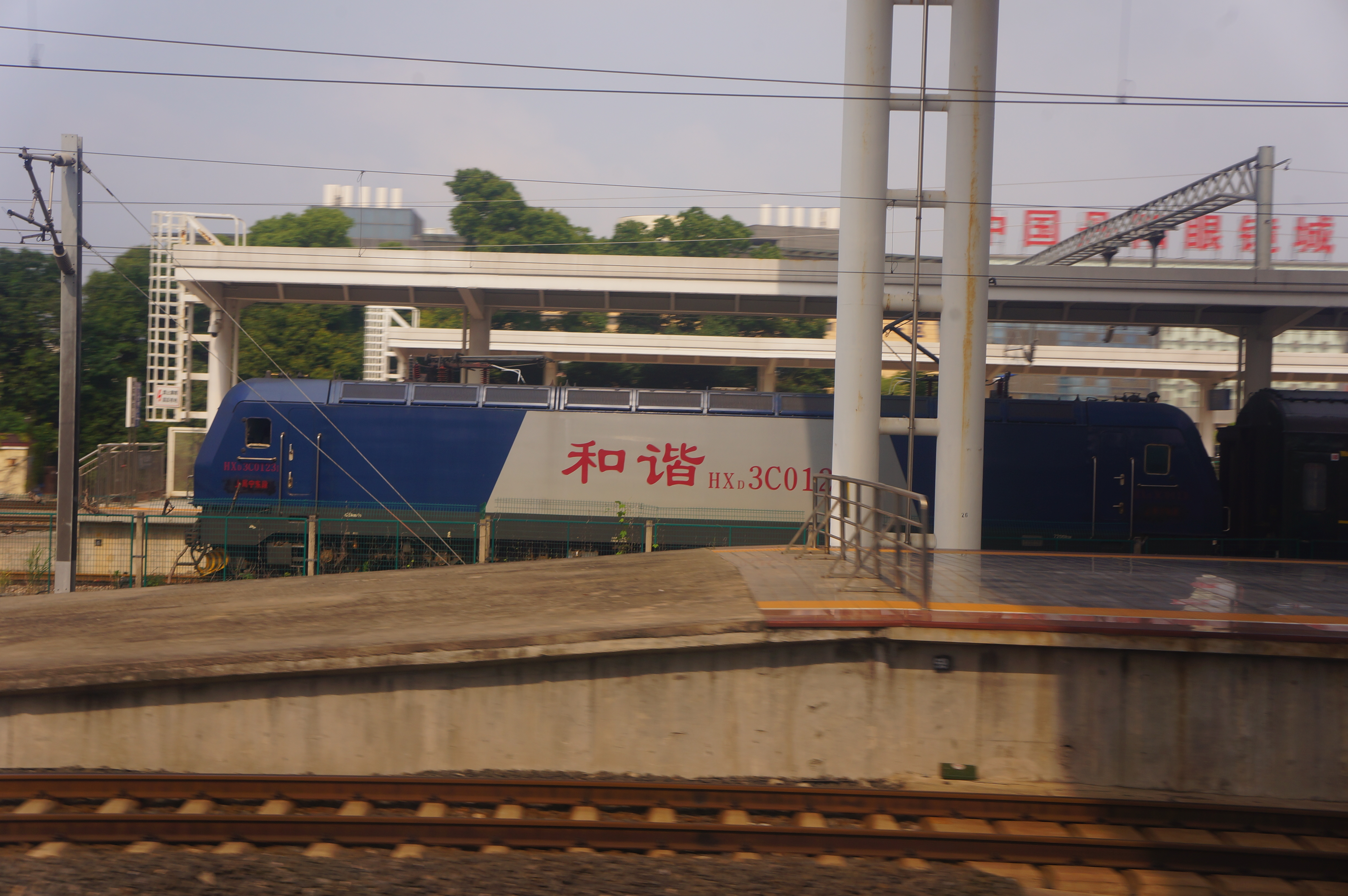 K1327 from Nanchang to Suzhou